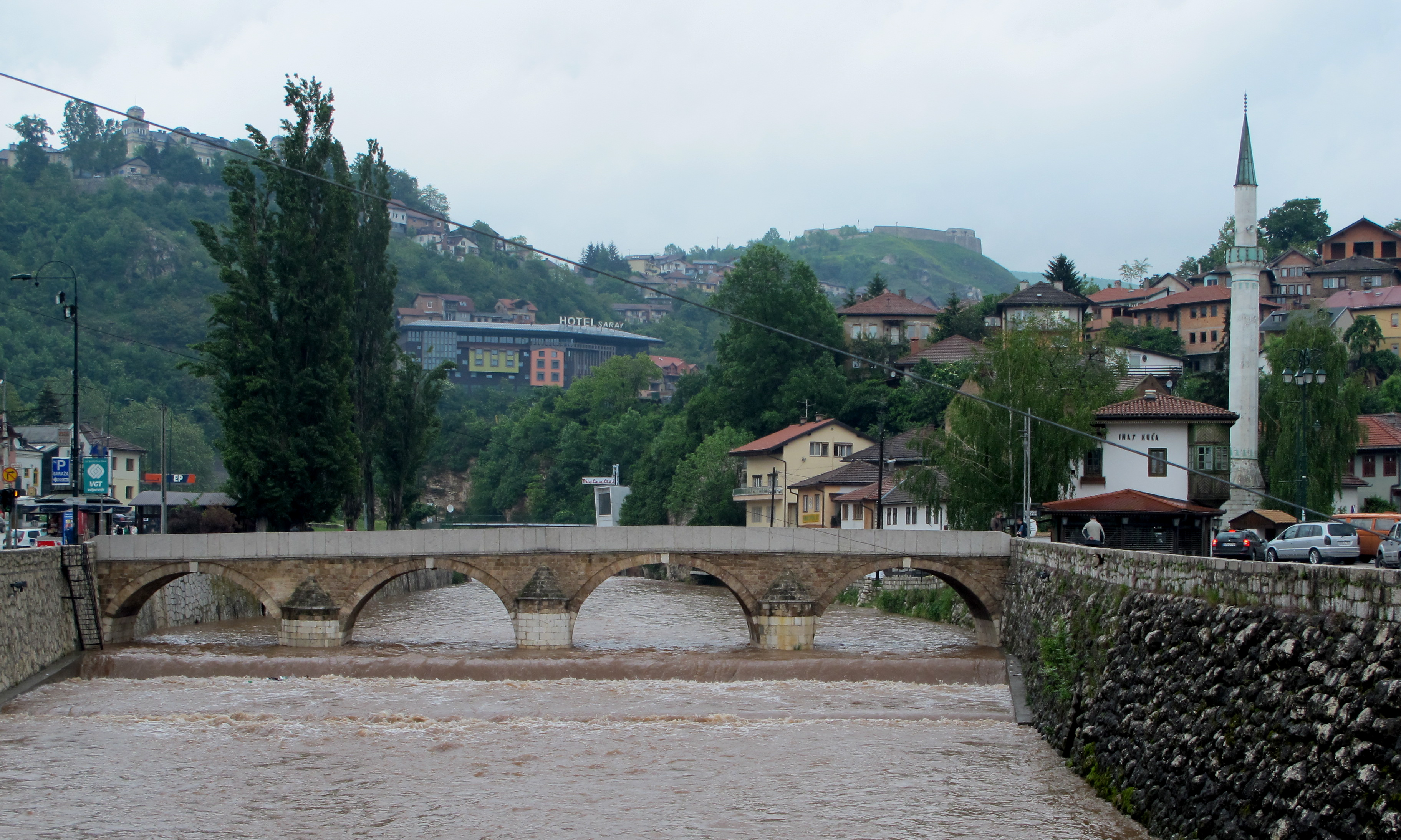 River Miljacka.